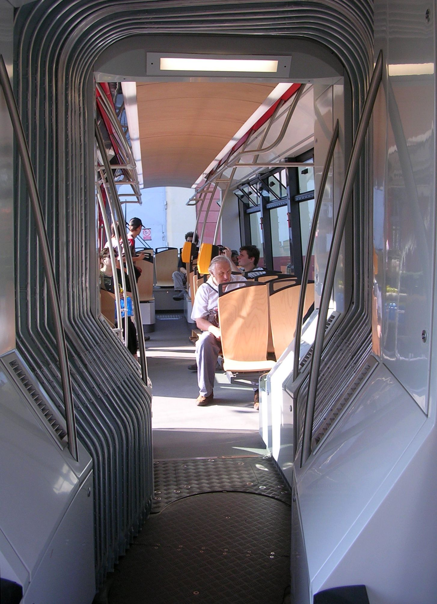 Střešovice, Prague, the Czech Republic. Open Doors Day in Střešovice tram depot and transport museum. Tram Škoda 15T. - Google Maps - Google Earth